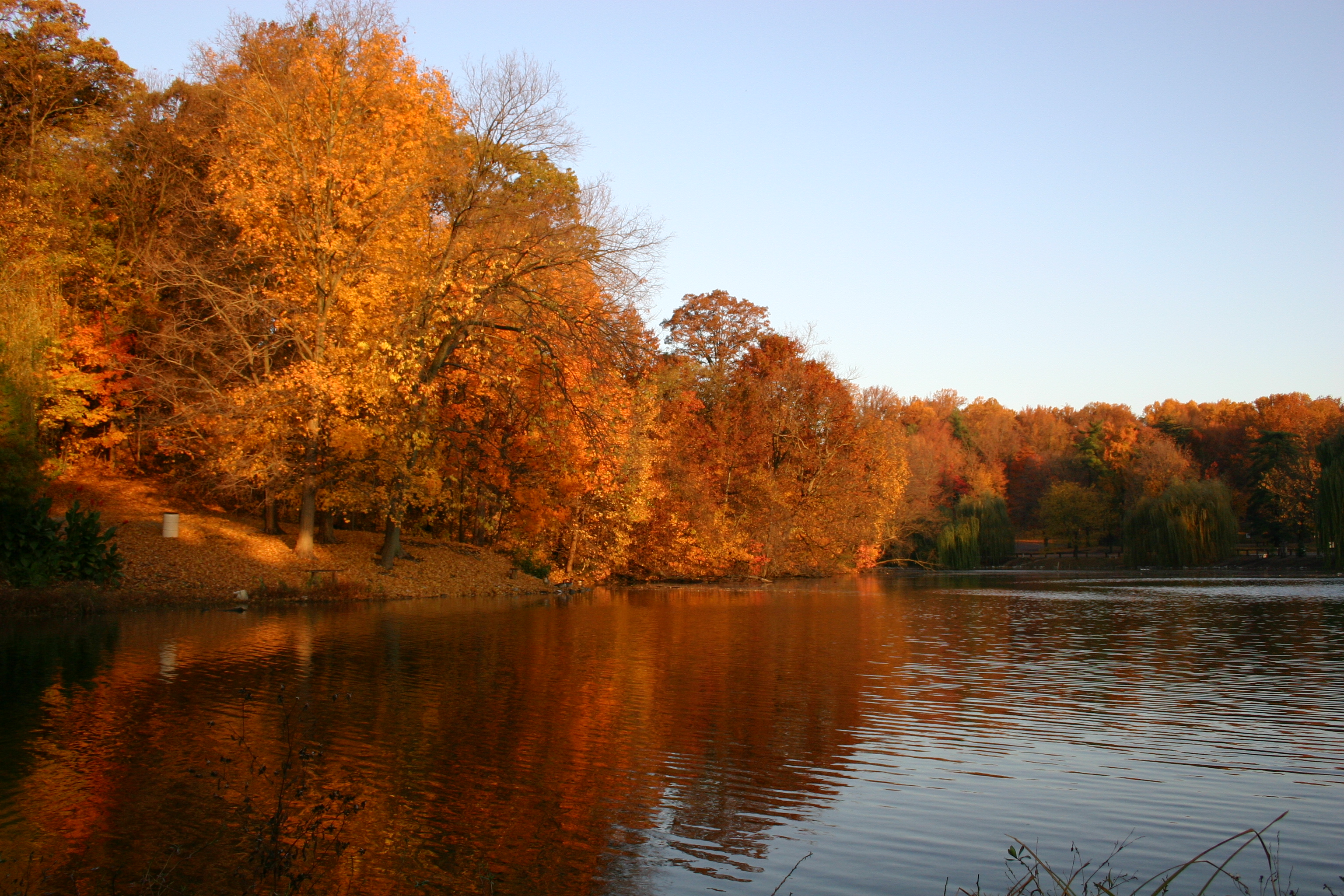 The two-and-a-half acre fishing lake at Burdette Park.